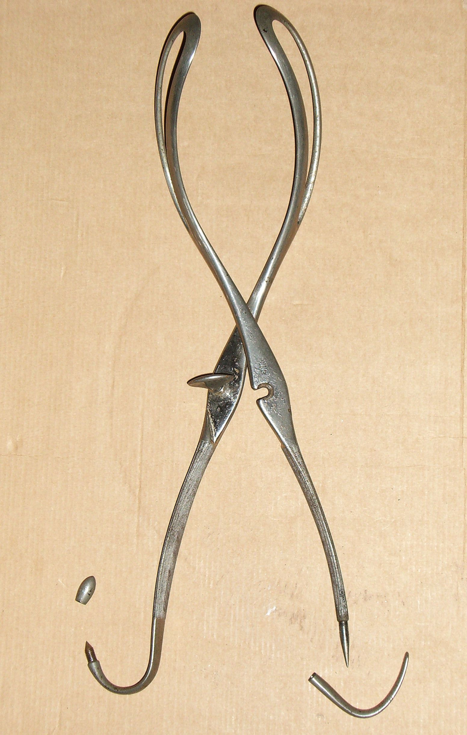 Obstetrical forceps; french forceps: Levret - Baudelocque type; made around 1860